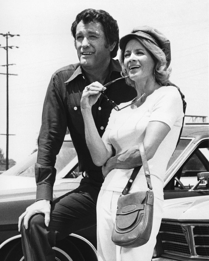 Publicity photo for Police Woman